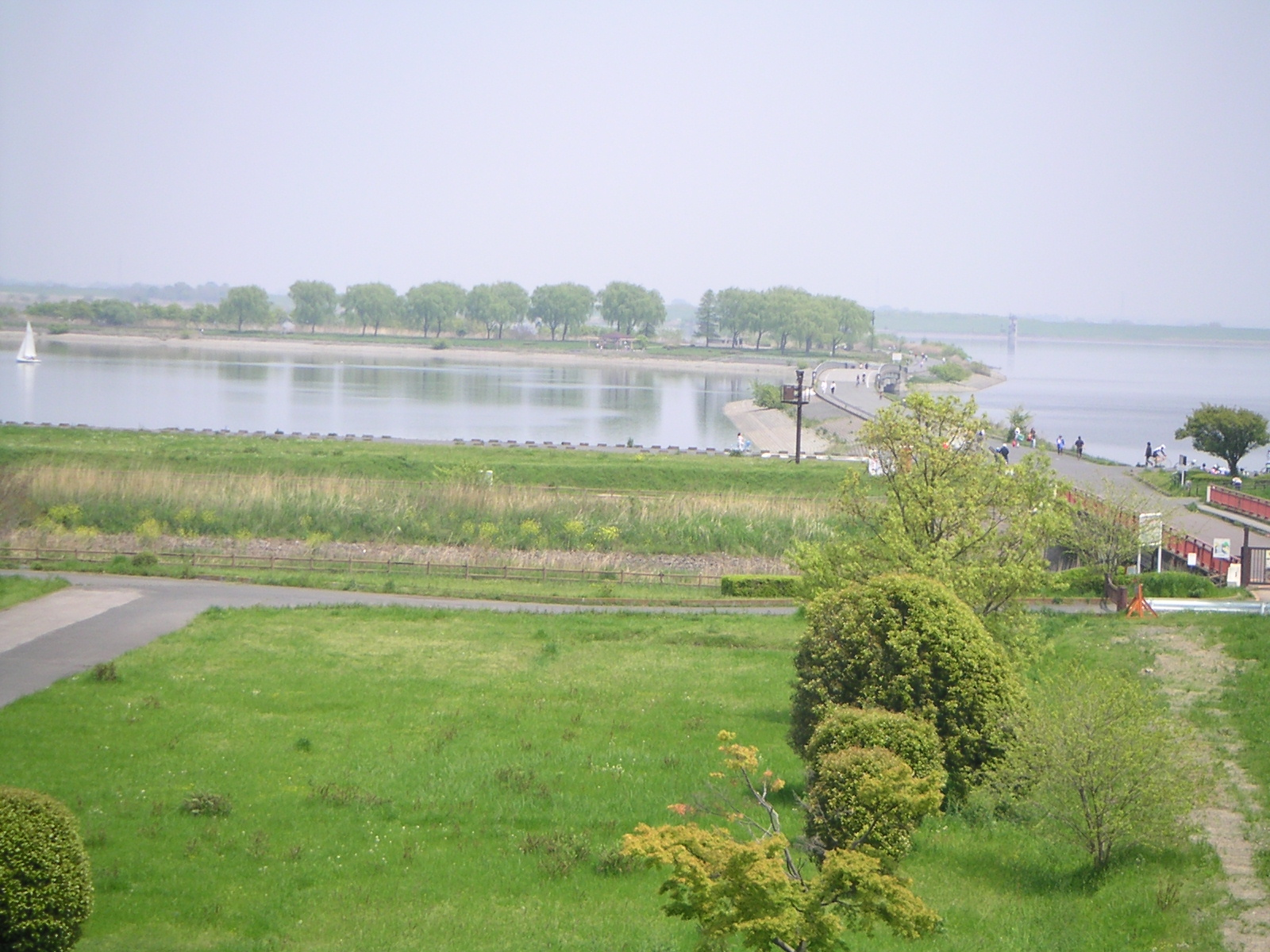 View from Central Entrance of WataraseYusuichi